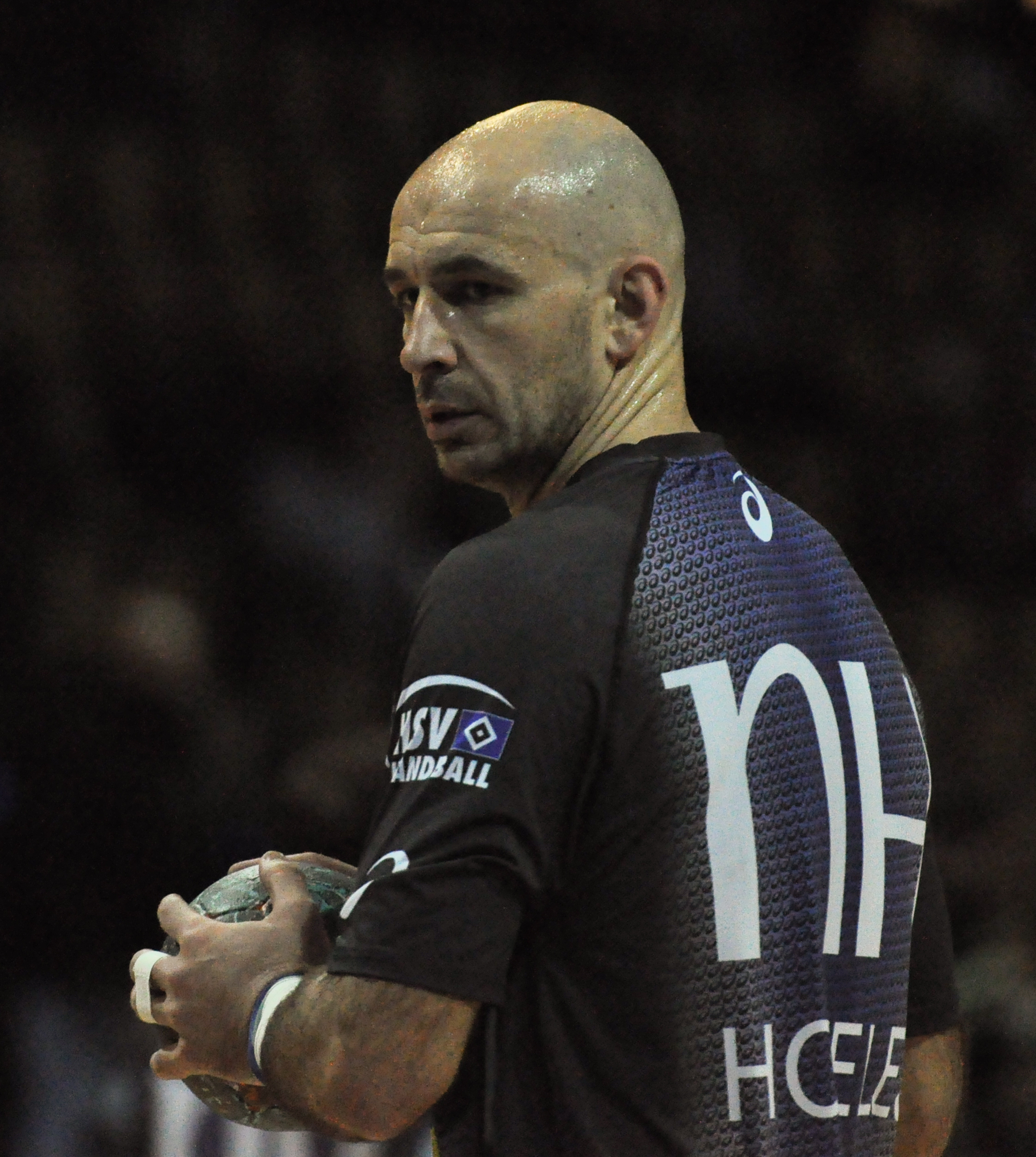 taken on February 8, 2014 during DKB Handball-Bundesliga match between HSG Wetzlar and HSV Hamburg